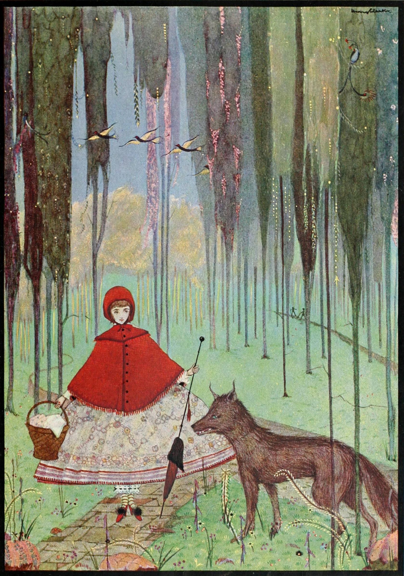 Illustration in The fairy tales of Charles Perrault Perrault, Charles, 1628-1703; Clarke, Harry, 1889-1931, illustrator. London: Harrap (1922)